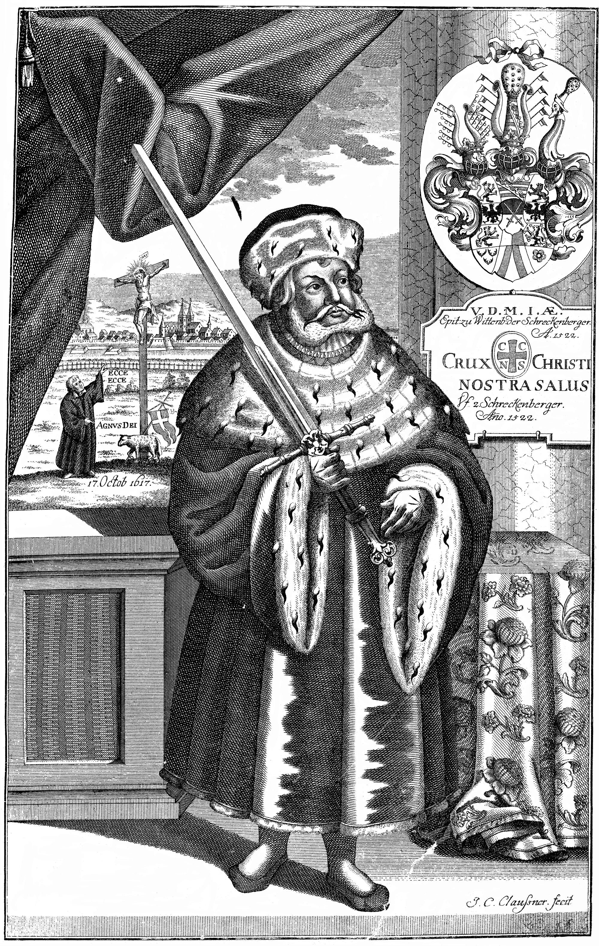 An image of Frederick III, also known as Frederick the Wise, the Elector of Saxony (r. 1486-1525). Frederick is shown holding a sword, standing before an image of the crucifixion, with his coat of arms to the right. In the background is Martin Luther (1483-1546) standing at the foot of the Cross with the Words "Ecce Ecce", meaning "Behold, Behold".